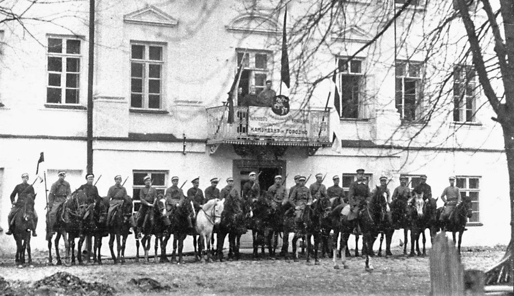 Belarusian housars in front of the house of Tribunal in Grodno, 1919